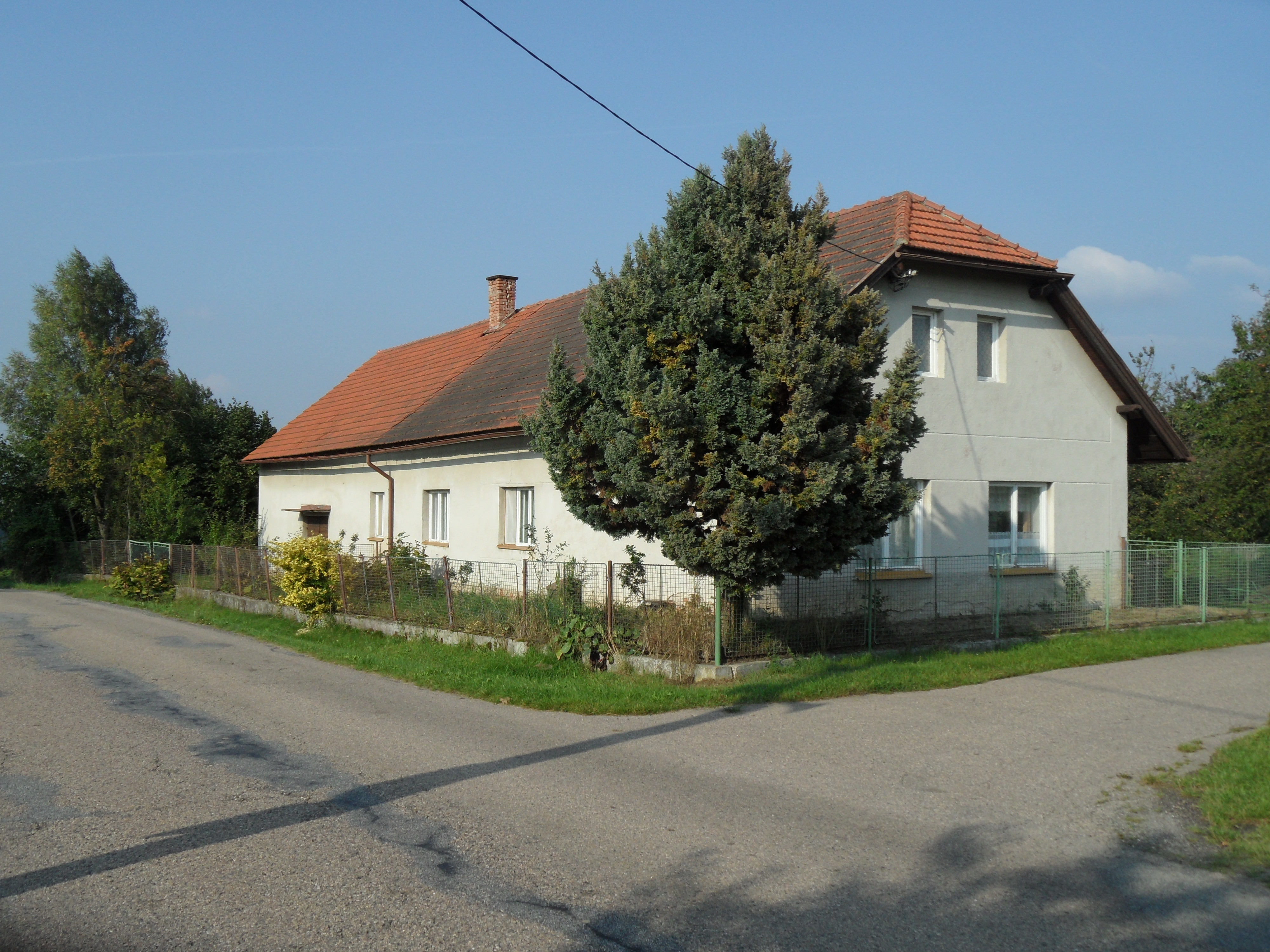 Starý Samechov C. House by Main Road III/336, Kutná Hora District, the Czech Republic.